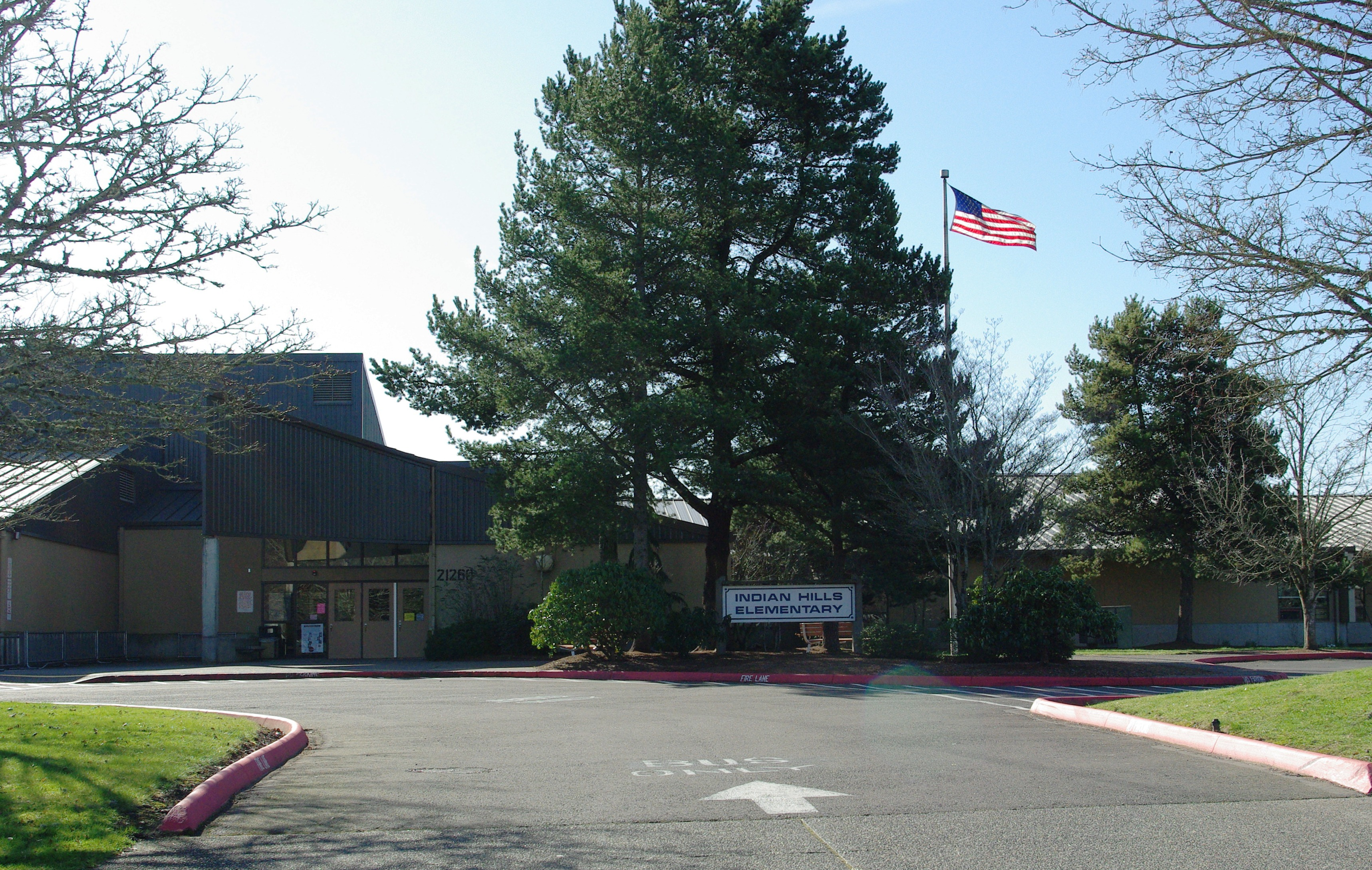 Indian Hills Elementary School in the Reedville, Oregon, area. Part of the Hillsboro School District.